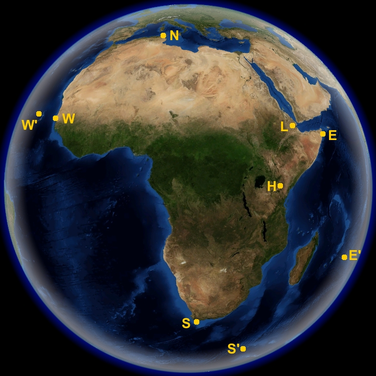 Globe showing the extreme points of Africa. Legend: N (northern): Ras ben Sakka, Tunisia S (southern, continental): Cape Agulhas, South Africa S' (southern, insular): Marion Island, South Africa E (eastern, continental): Ras Hafun, Somalia E' (eastern, insular): Rodrigues, Mauritius W (western, continental): Cap Vert, Senegal W' (western, insular): Santo Antão, Cape Verde H' (highest): Kilimanjaro, Tanzania (5.895 m alt.) L (lowest) : Lake Asal, Djibouti (155 m b. s. l.)